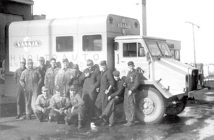 Vanaja AS-21B/3600 service vehicle that was particularly tailored to its purpose. The vehicle was made in 1964 and it was operated all over Finland.